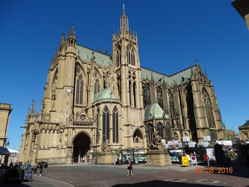 Kathedrale Saint-Étienne